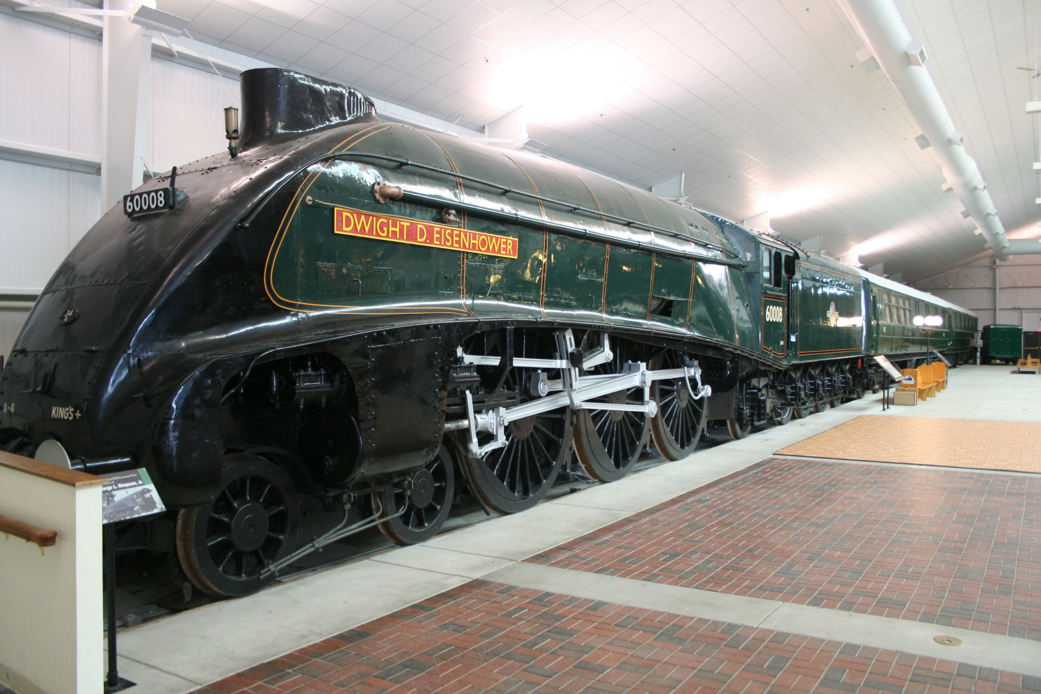 LNER Class A4 4496 Dwight D Eisenhower front angle, Frederick J. Lenfestey Center, National Railroad Museum, Green Bay, WI